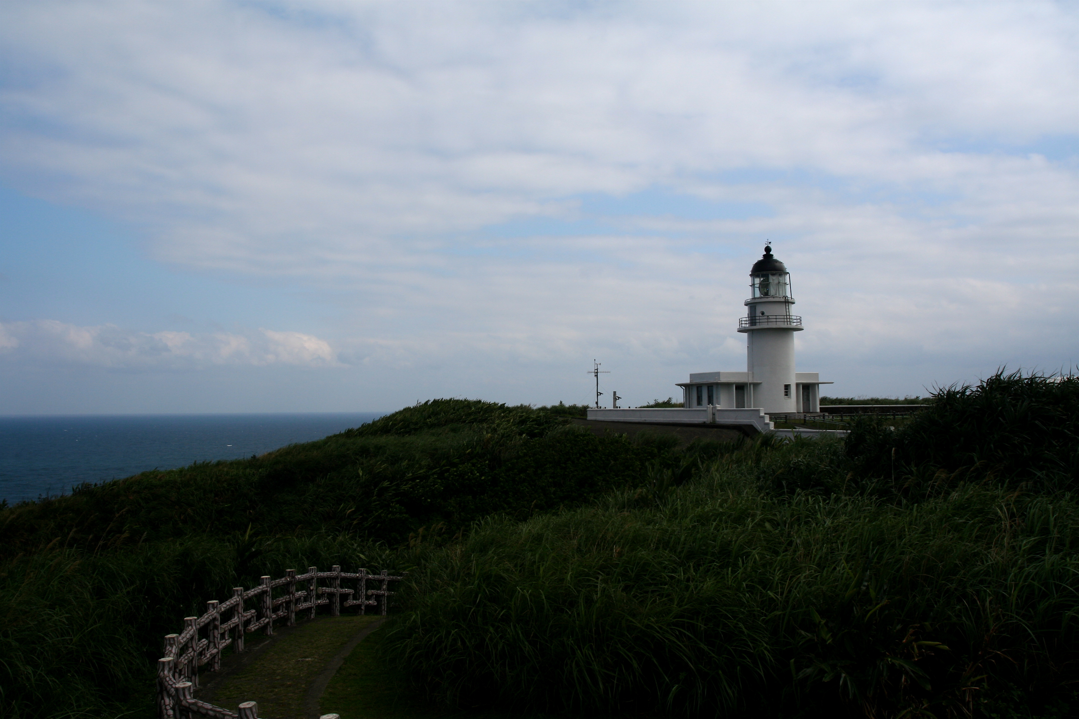 Shandiaojiao Lighthouse